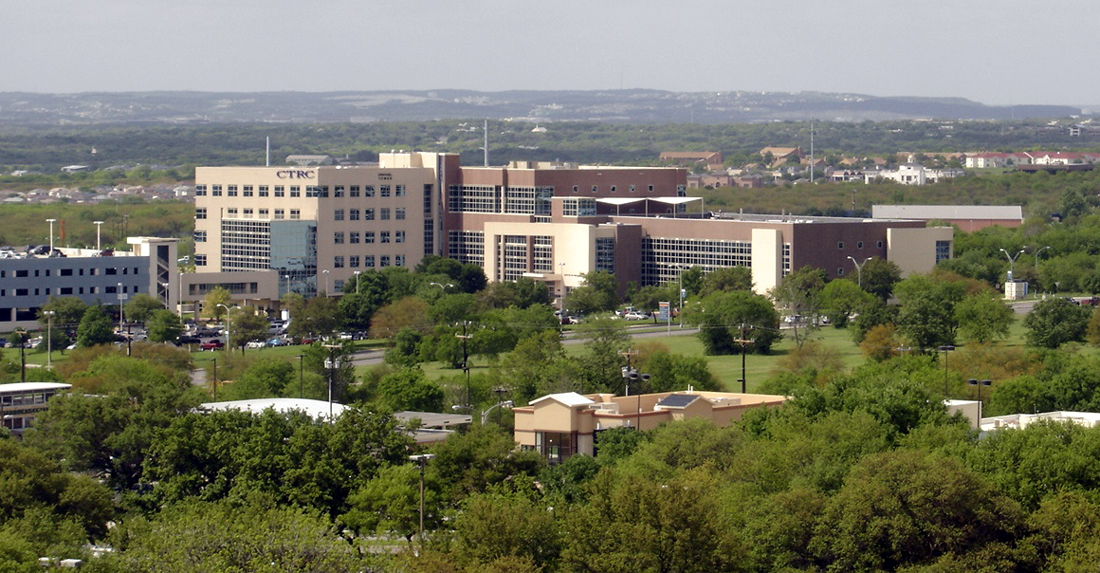 CTRC, UTHSCSA